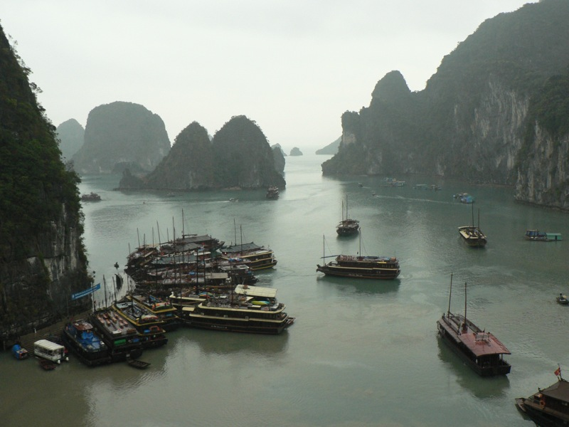 Boats on Ha Long Bay in the Gulf of Tonkin in north Vietnam.